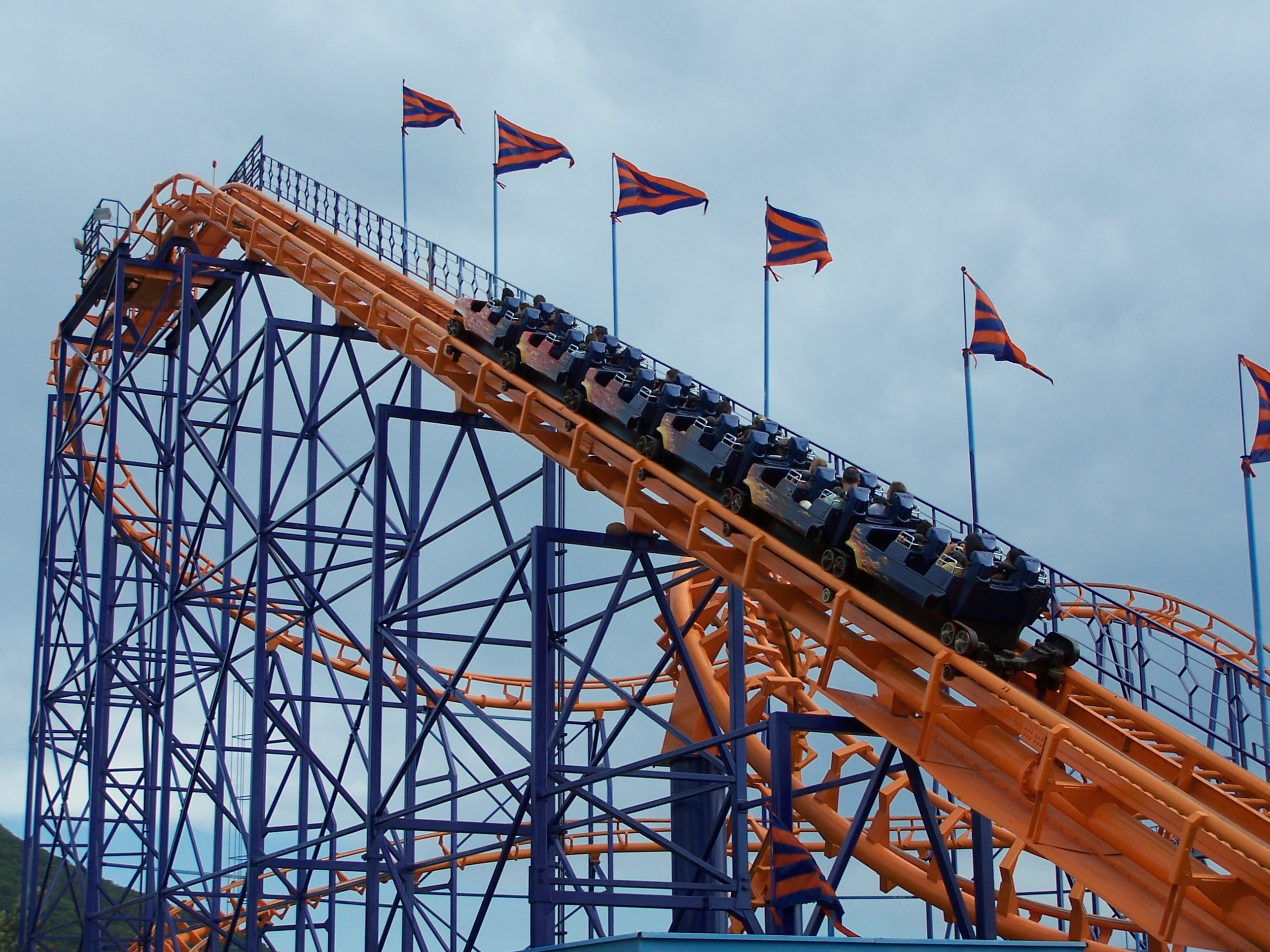 The Star World Mountain in Beto Carrero World. Previously in Ital Park as Cohete